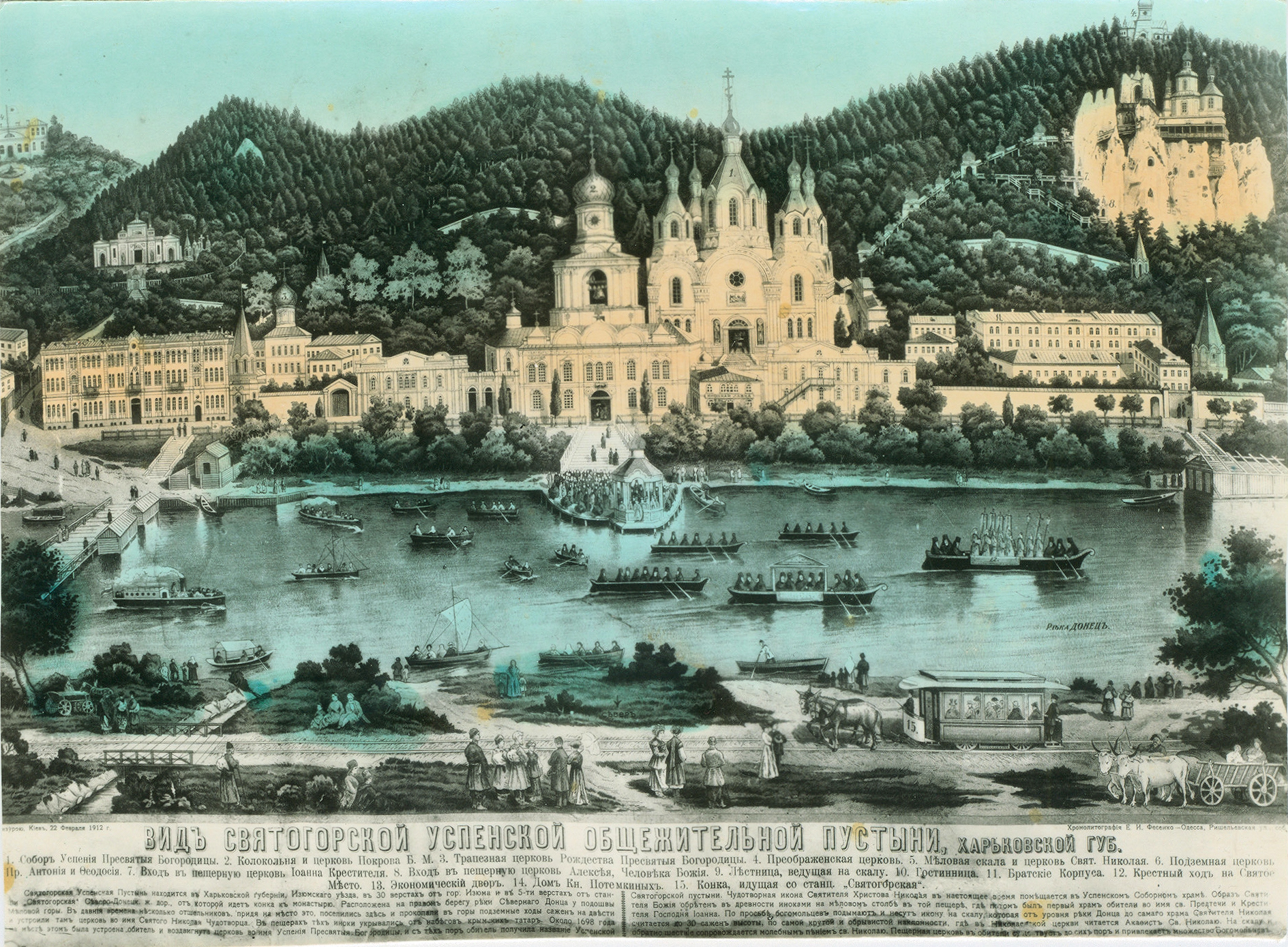 Svyatogorsk-lavra card